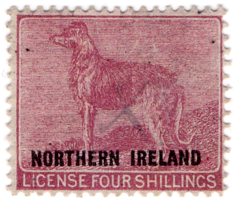 Northern Ireland dog licence stamp used 1921 or later.